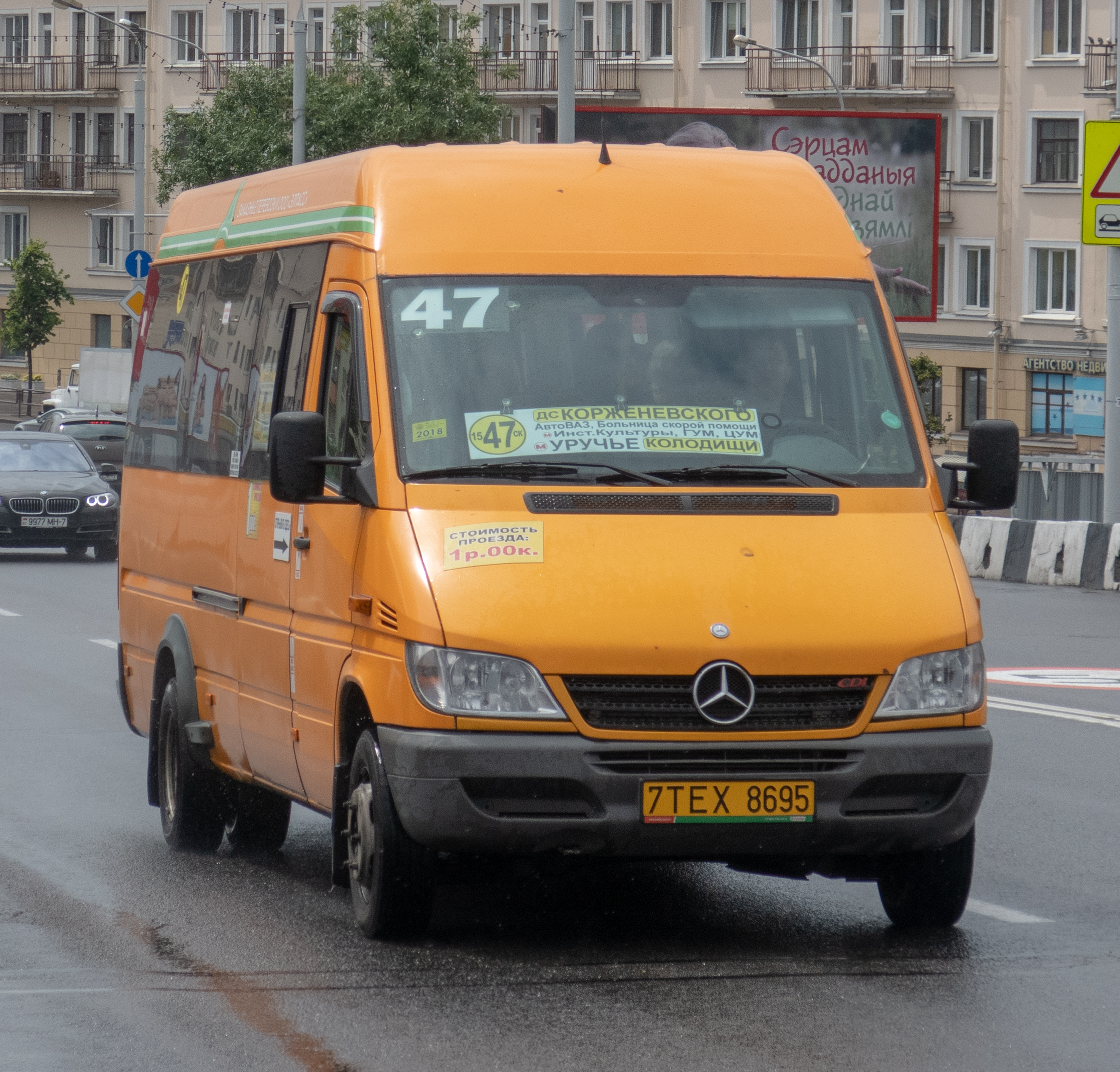 Marshrutka in Minsk